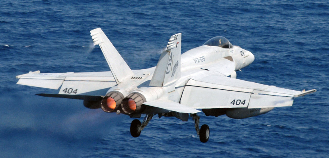 FIFTH FLEET AREA OF RESPONSIBILITY (Dec. 3, 2007) An F/A-18 Hornet assigned to the "Gunslingers" of Strike Fighter Squadron (VFA) 105, launches from the flight deck of the Nimitz-class nuclear-powered aircraft carrier USS Harry S. Truman (CVN 75) during flight operations. Truman and embarked Carrier Air Wing (CVW) 3 are underway on a regularly scheduled deployment in support of maritime operations. U.S. Navy photo by Mass Communication Specialist Seaman Apprentice Matthew Bookwalter (Released)